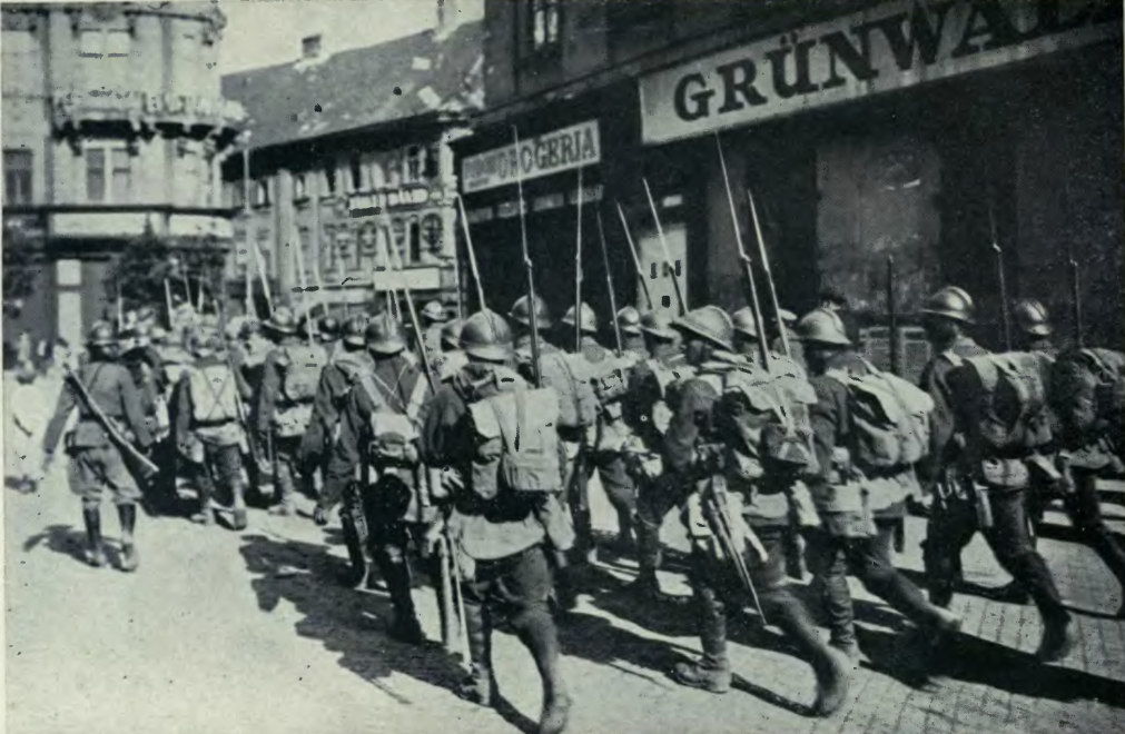 Romanian troops occupying Budapest, 1919